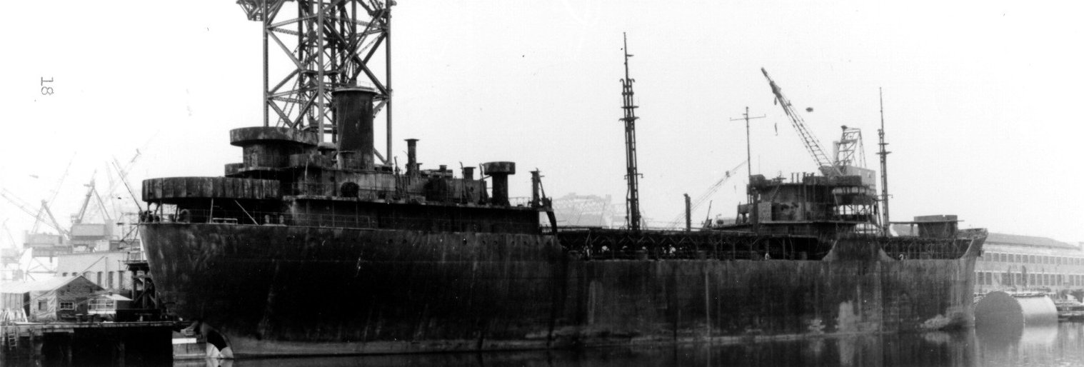 USNS Mission De Pala (T-AO-114) just before conversion to a Missile Range Instrumentation Ship in Quincy, Massachusetts.